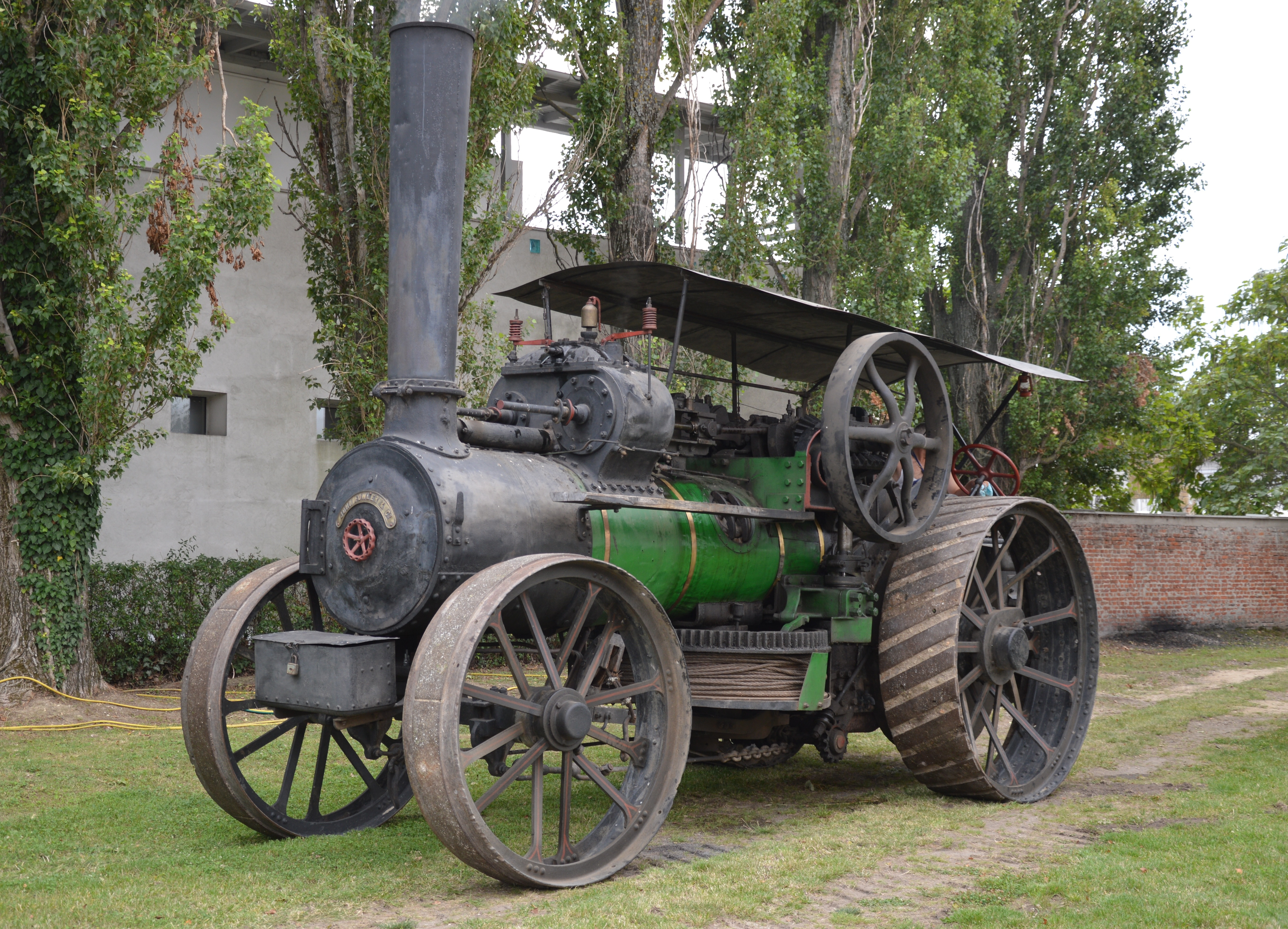 Fowler ploughing engines (Georgikon Croft Museum, Keszthely)